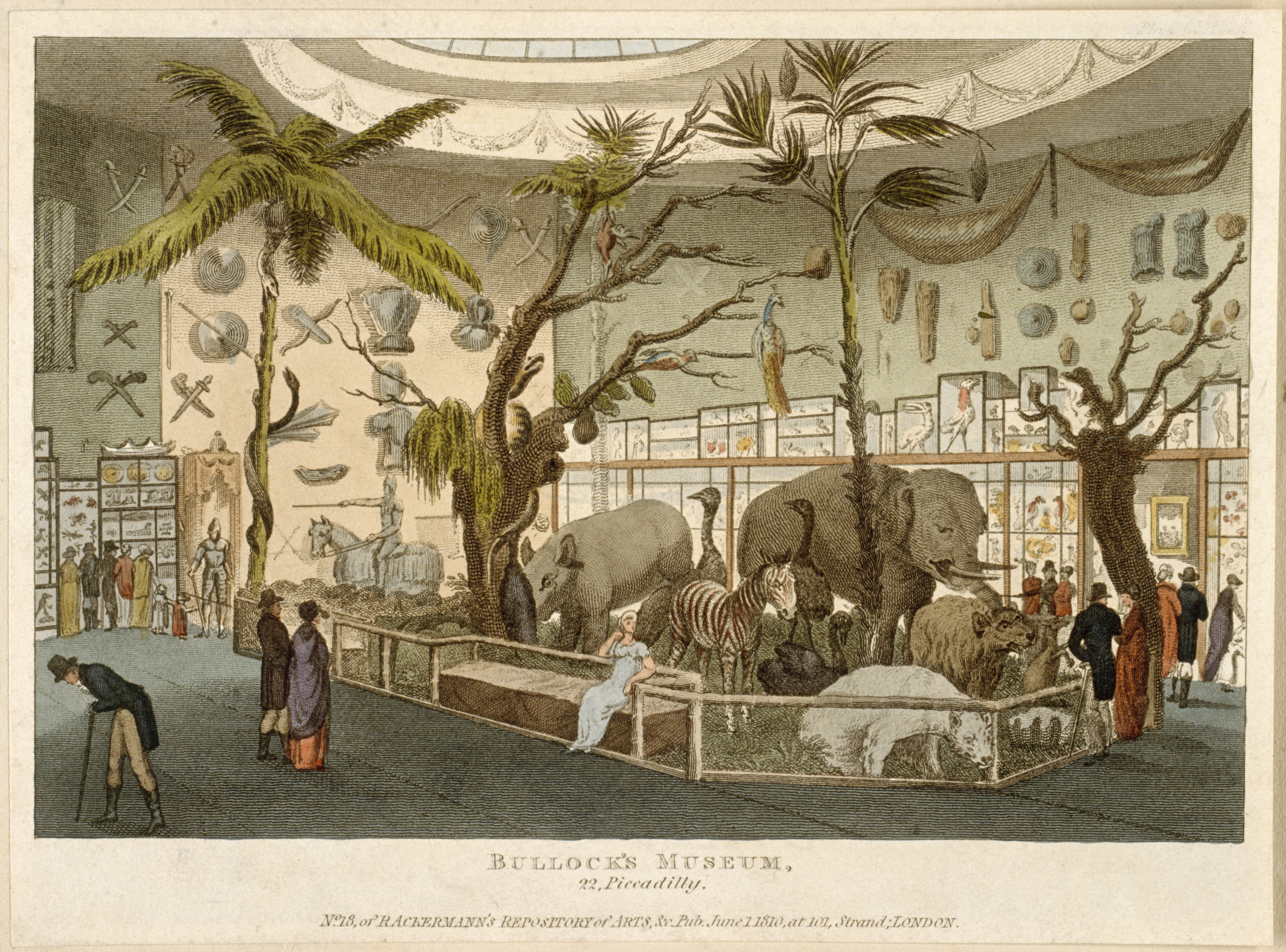 Bullock's Museum, (Egyptian Hall or London Museum), Piccadilly: the interior. Coloured aquatint, 1810. Iconographic Collections Keywords: ic; london museum; Thomas Hosmer Shepherd; Peter Frederick Robinson